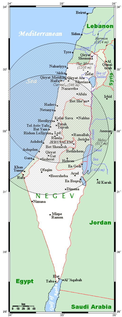 Coverage of Israel provided by two Arrow 2 theater-defense anti-ballistic missiles batteries, derived from their published locations (Palmachim, Ein Shemer) and range (90-100 km).